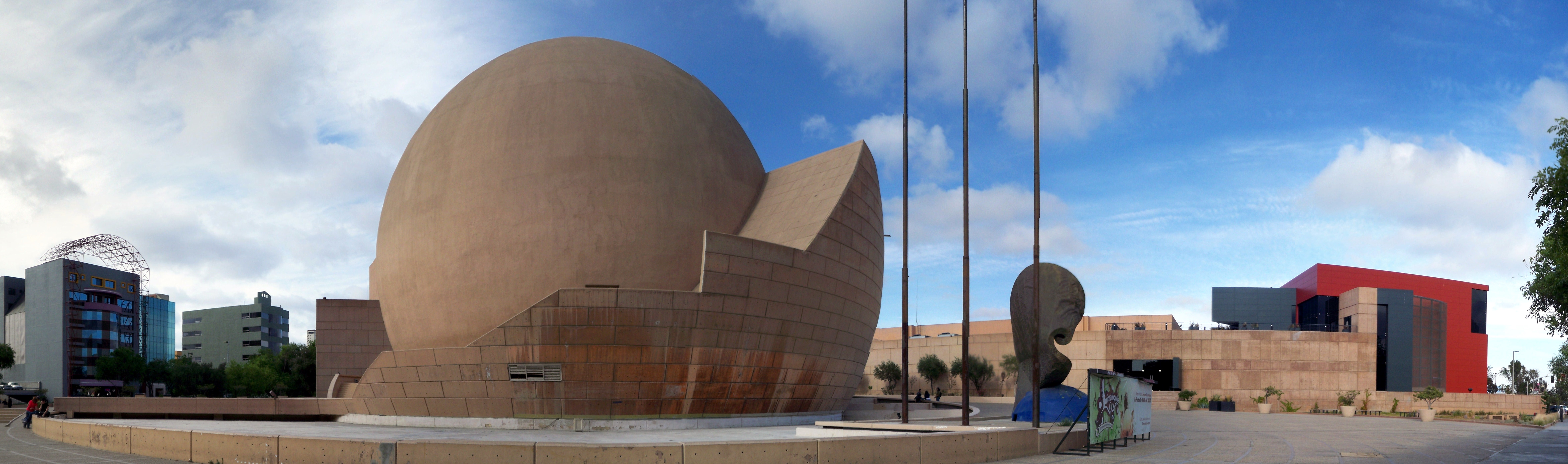 Panorama of the Tijuana Cultural Center